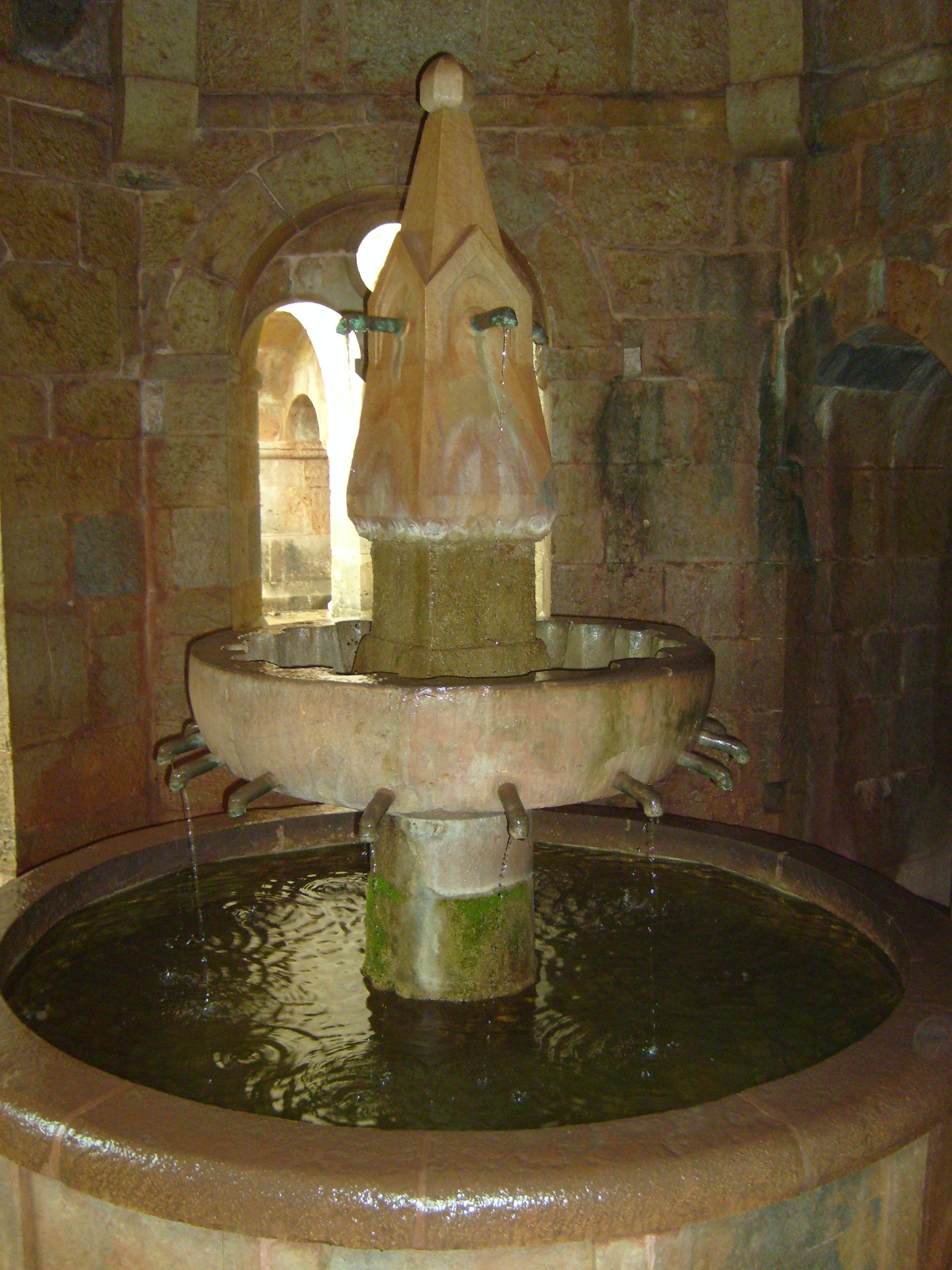 Lavabo, or Washing Fountain, of Le Thoronet Abbey, Provence, France